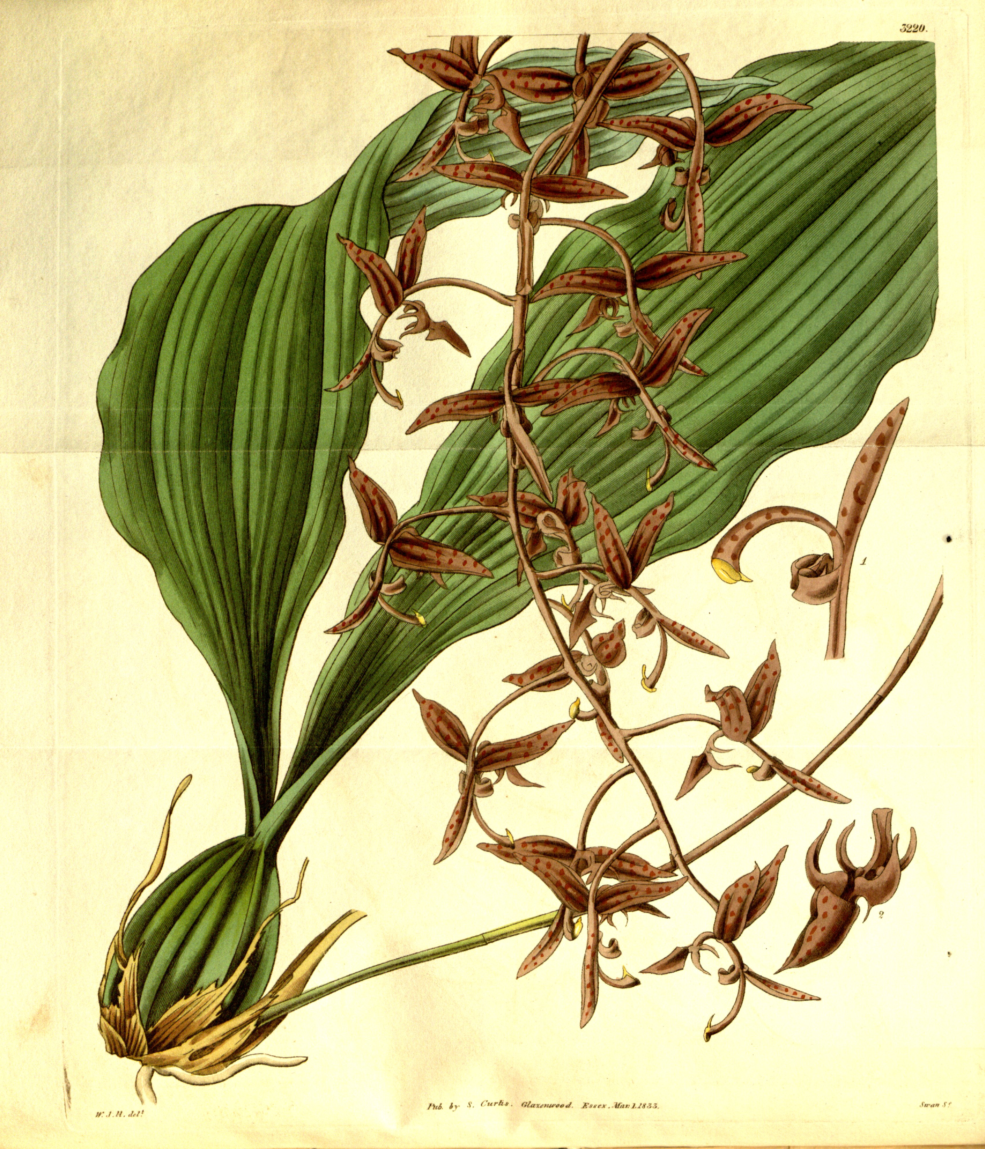 Illustration of Gongora atropurpurea